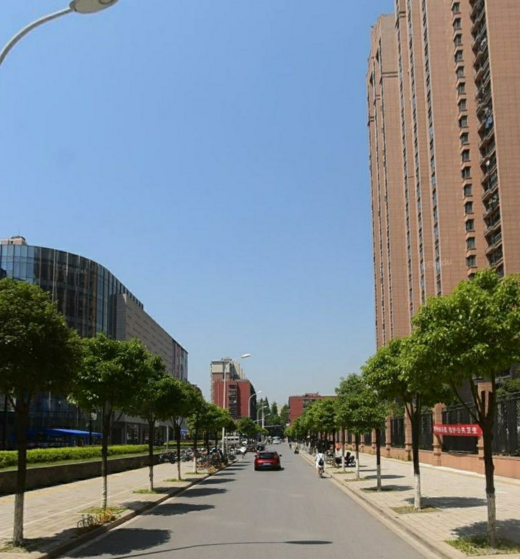 Benxi Street,Hongweilu Subdistrict.